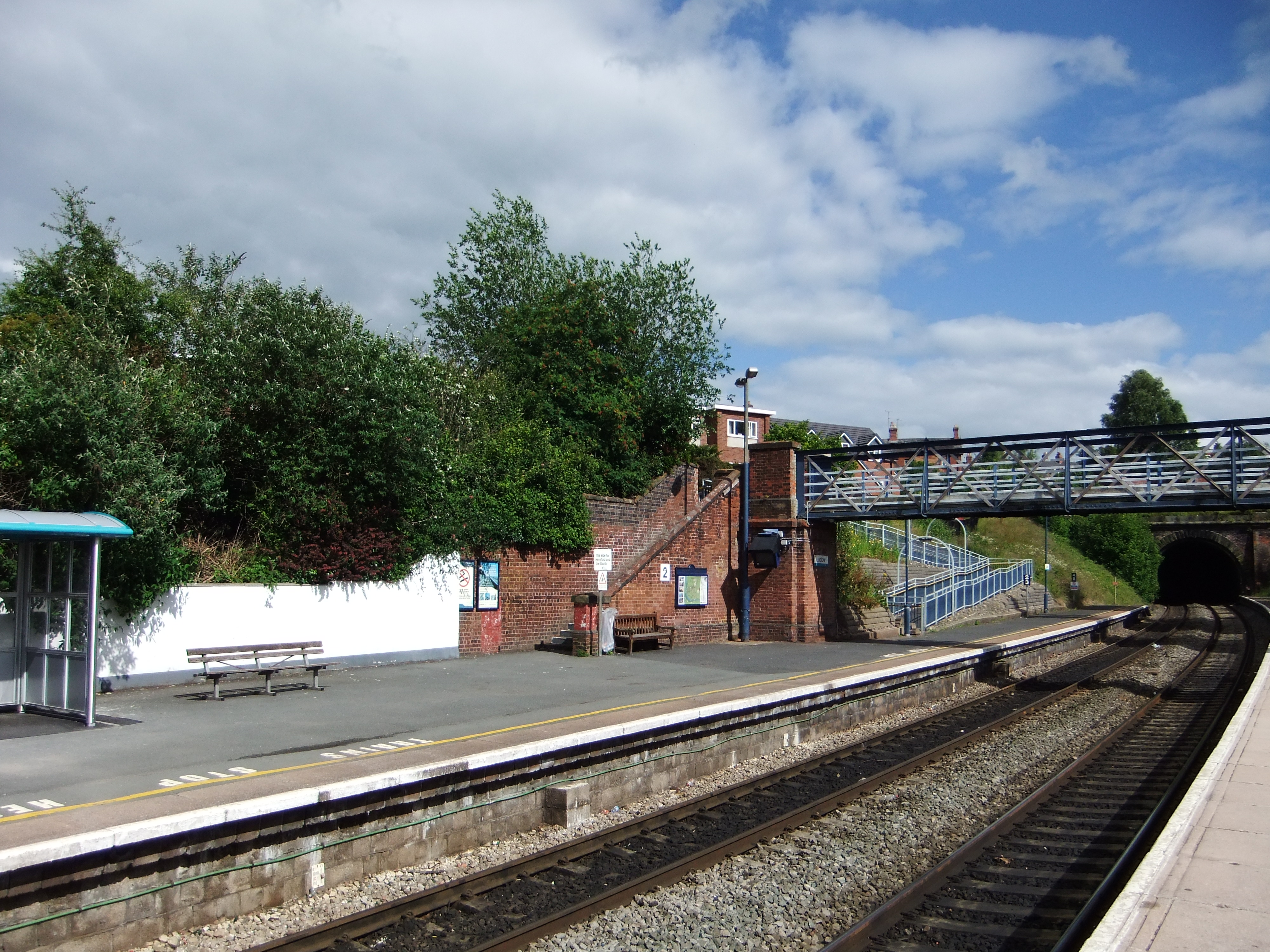 Ludlow railway station, Shropshire, England.